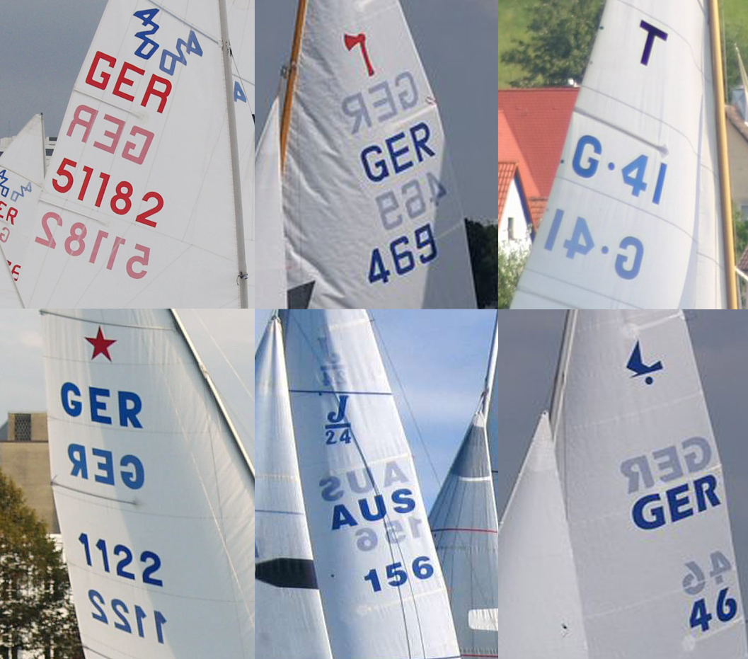 Collage of different images / sail emblems